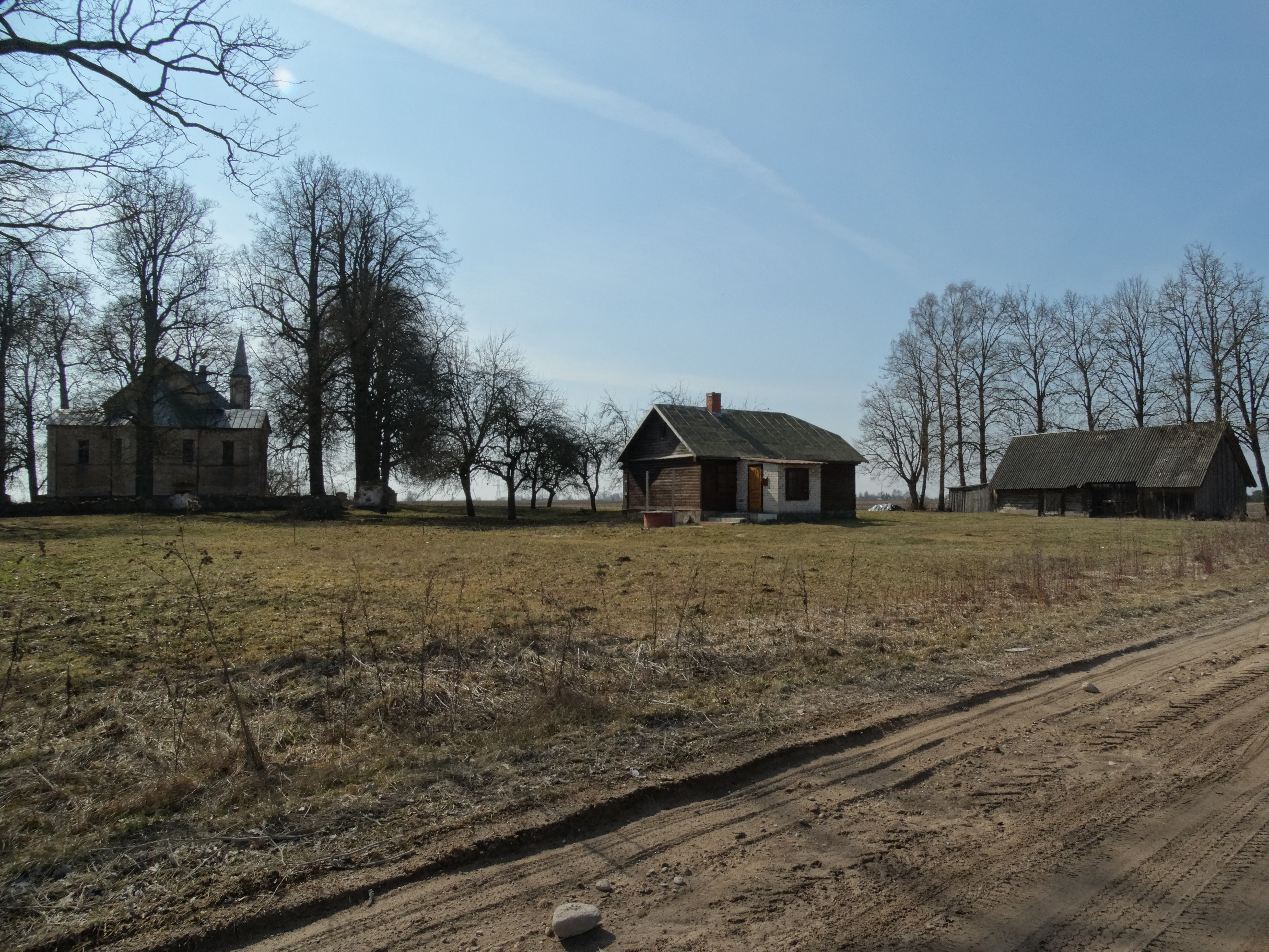 Bernotiškiai, Ukmergė district, Lithuania